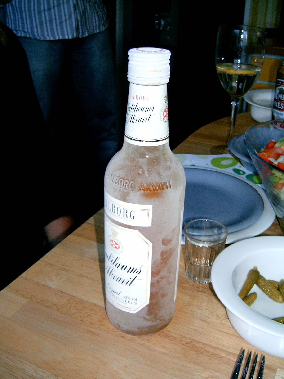 Snaps. Ice cold. From the freezer.